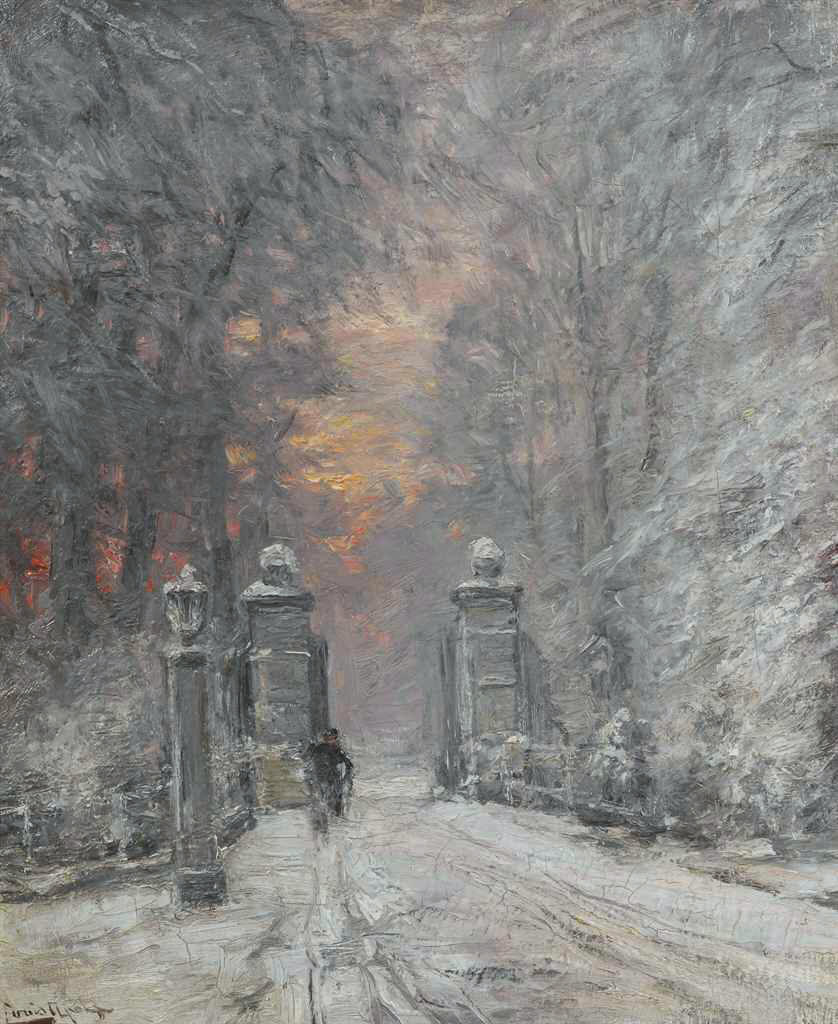 Entrance of a mansion around The Hague